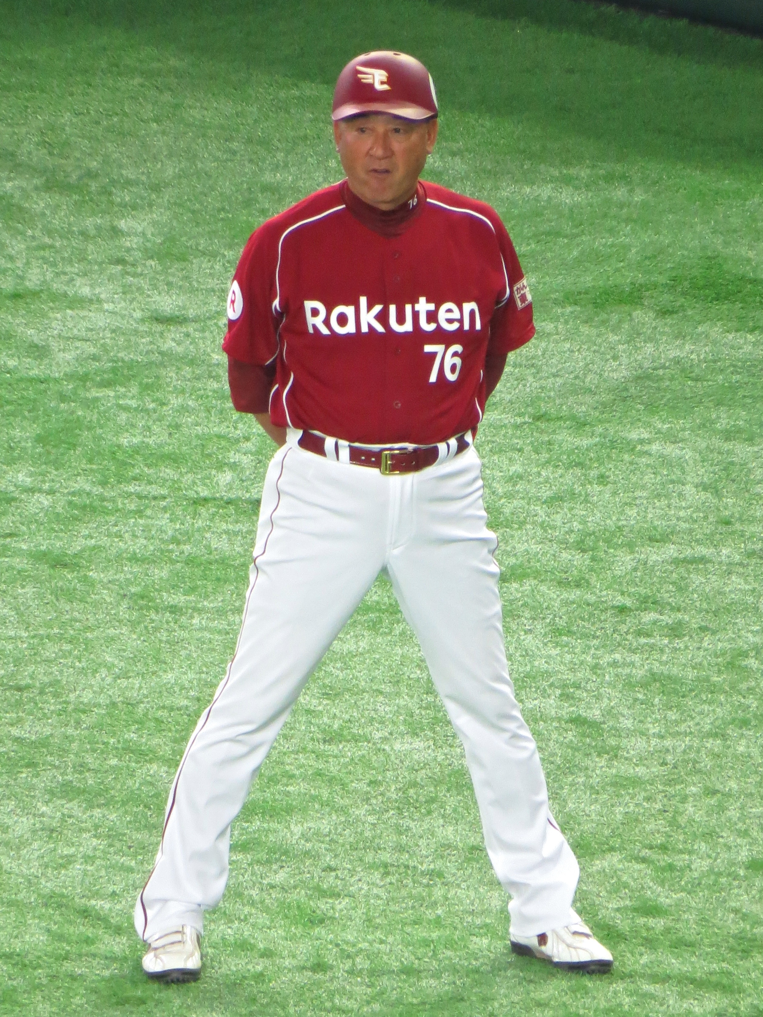 Osamu Yonemura, coach of the Tohoku Rakuten Golden Eagles, at Tokyo Dome